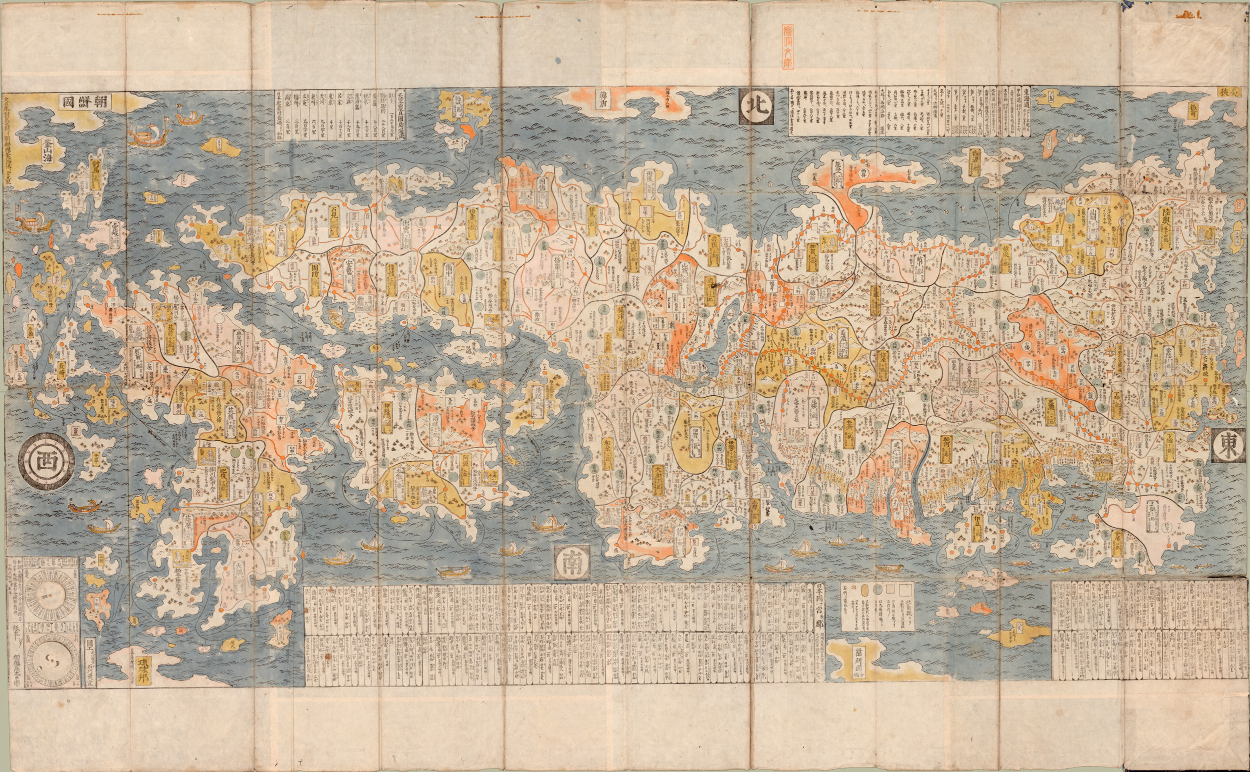 No known copyright restrictions. Please credit UBC Library as the image source. For more information, see Alternate Title: Nihon kaizan chōrikuzu Creator: Ishikawa, Ryūsen Date Created: 1691 Source: University of British Columbia Library - Rare Books and Special Collections Permanent URL